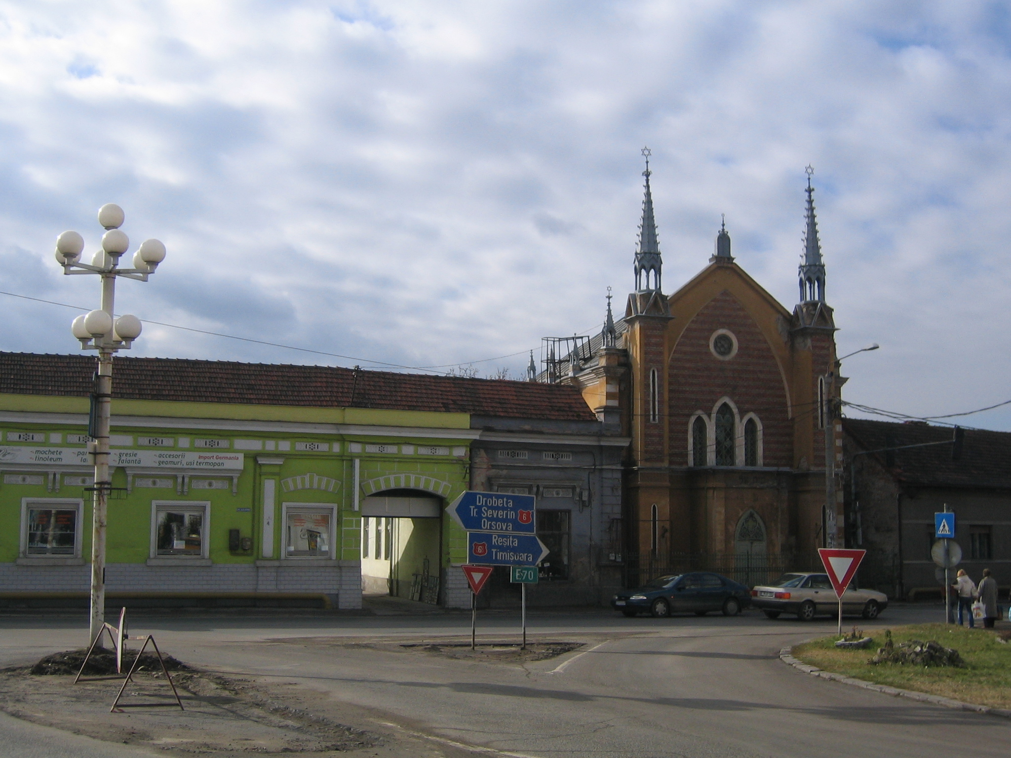 Synagogue in Caransebeş, Romania.